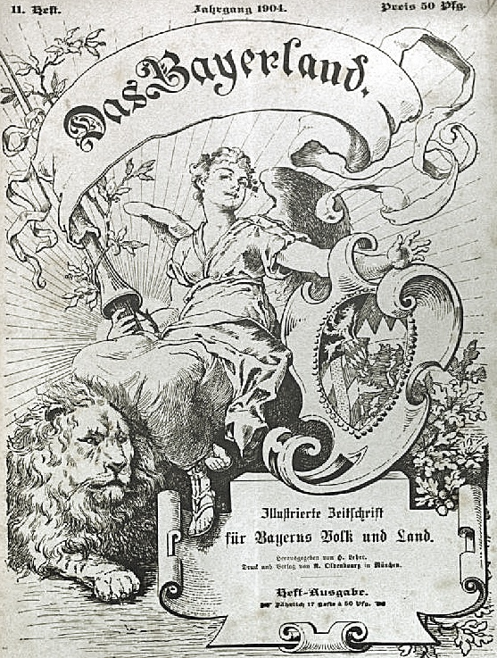 Zeitschrift "Das Bayerland", Titelblatt von 1904